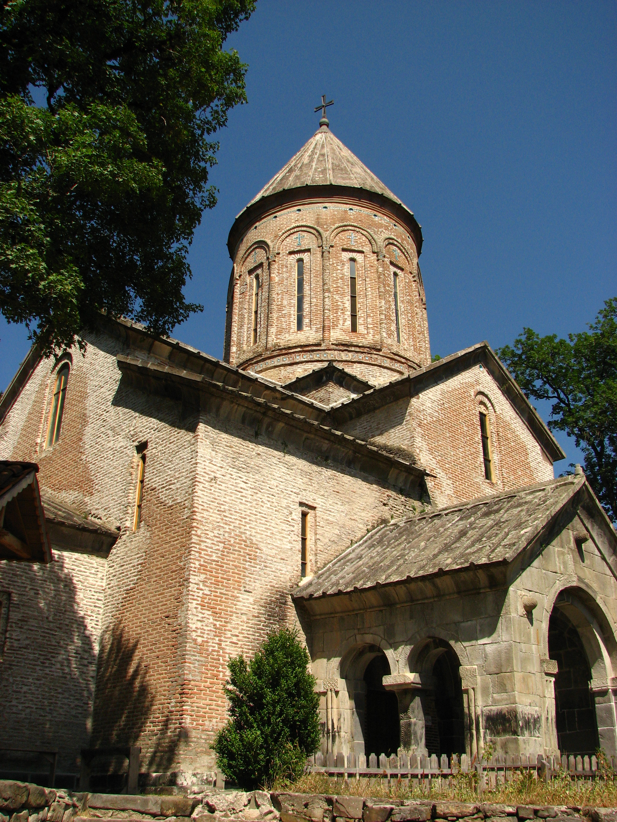 Timotesubani